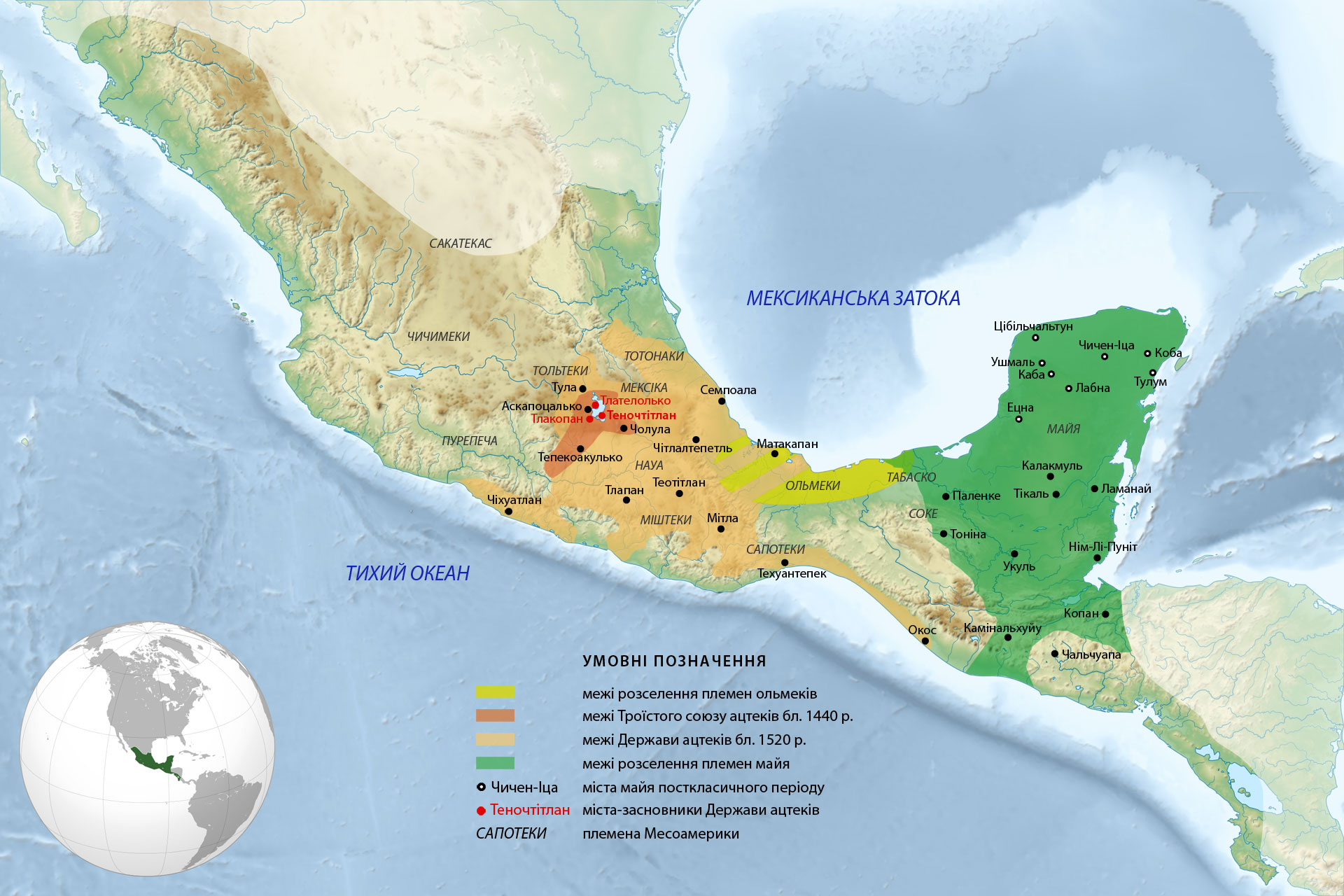 States, cities and tribes of Mesoamerica before Europian colonization. Resolution 1920 x 1280